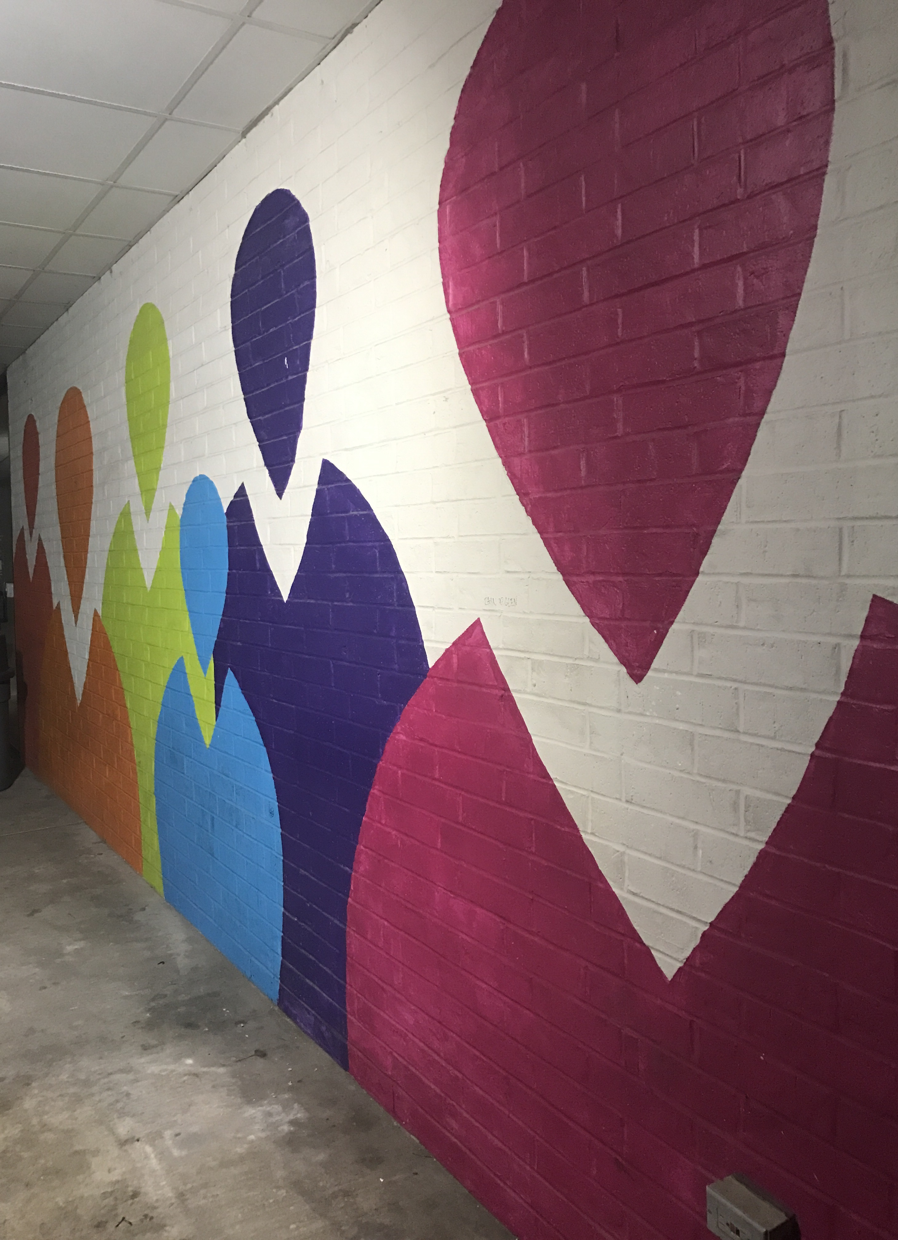 A picture of the wall art located on the ground floor of the Montrose Center in Houston, Texas